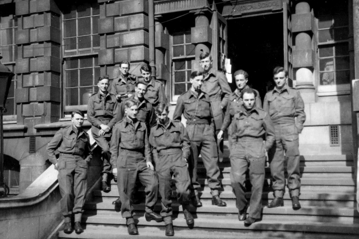 Group photo of Guy's medical students who went to Belsen, standing on steps outside (the hospital?) Archives & Manuscripts Keywords: Allen Percival Prior; Bergen-Belsen